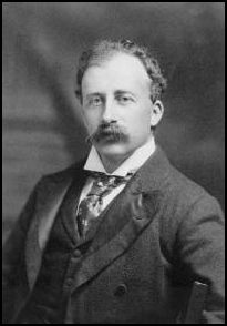 John Guille Millais in 1910